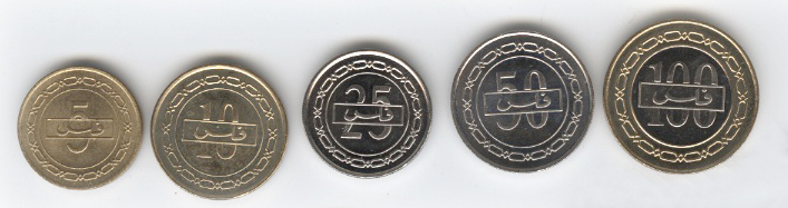 Bahraini coins - reverse